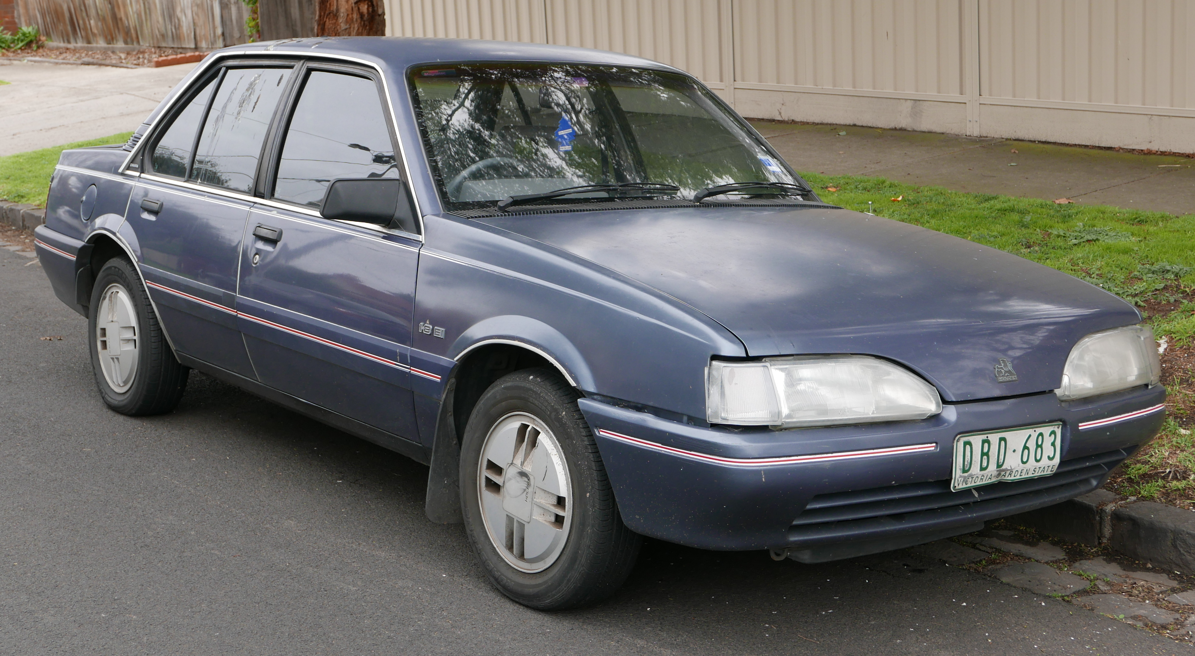 1987 Holden Camira (JD) SL/E sedan. Photographed in Coburg, Victoria, Australia. Vehicle registration enquiry results Jurisdiction Victoria Registration DBD683 Chassis code BJD035758M Engine code 18JC25002173 Compliance date Not available Year of manufacture 1987